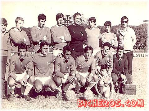 Rentistas 1971's First team, Second Division champion